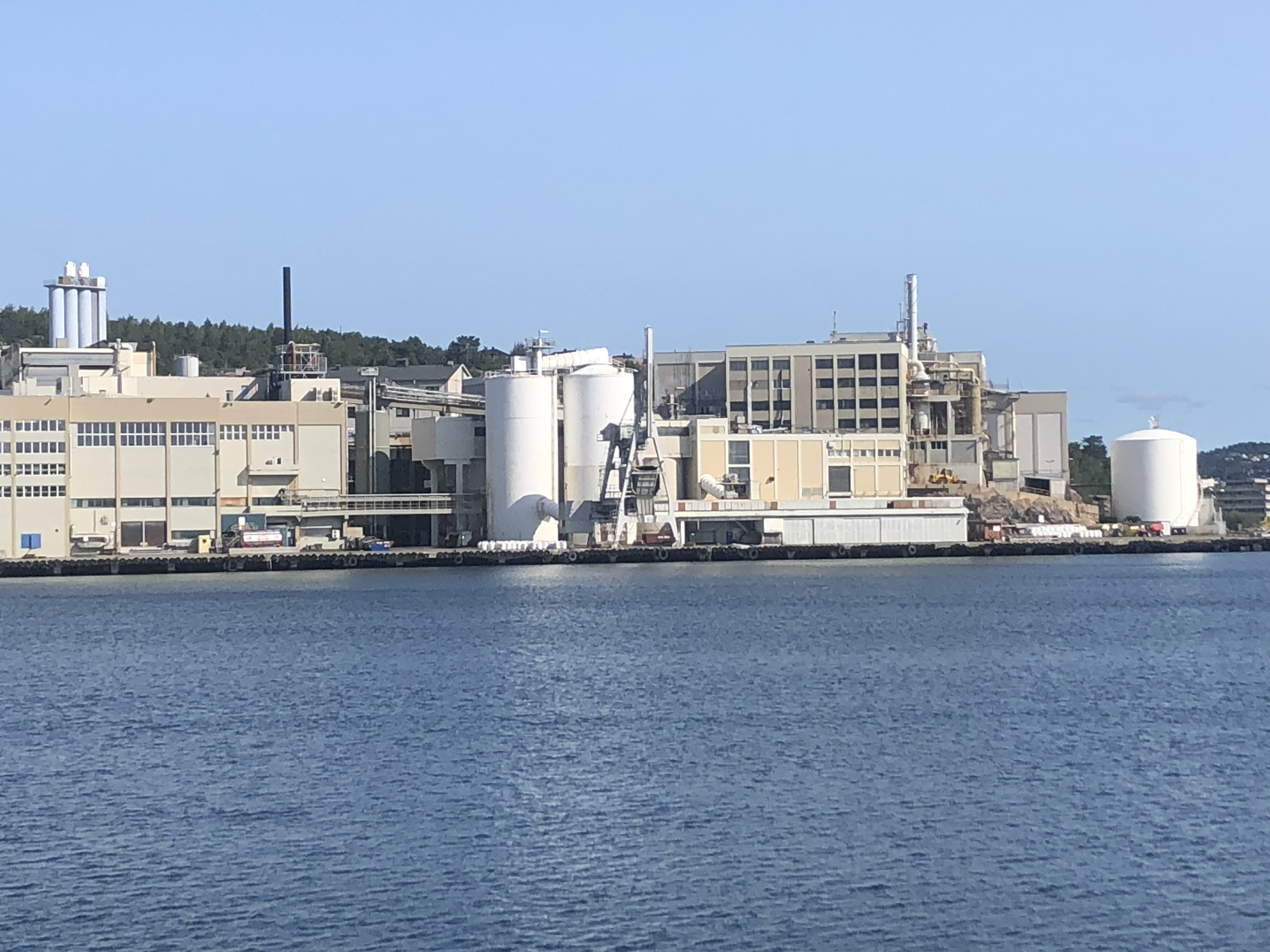 Xstrata (Falconbridge) nickel Works in Kristiansand, Norway.